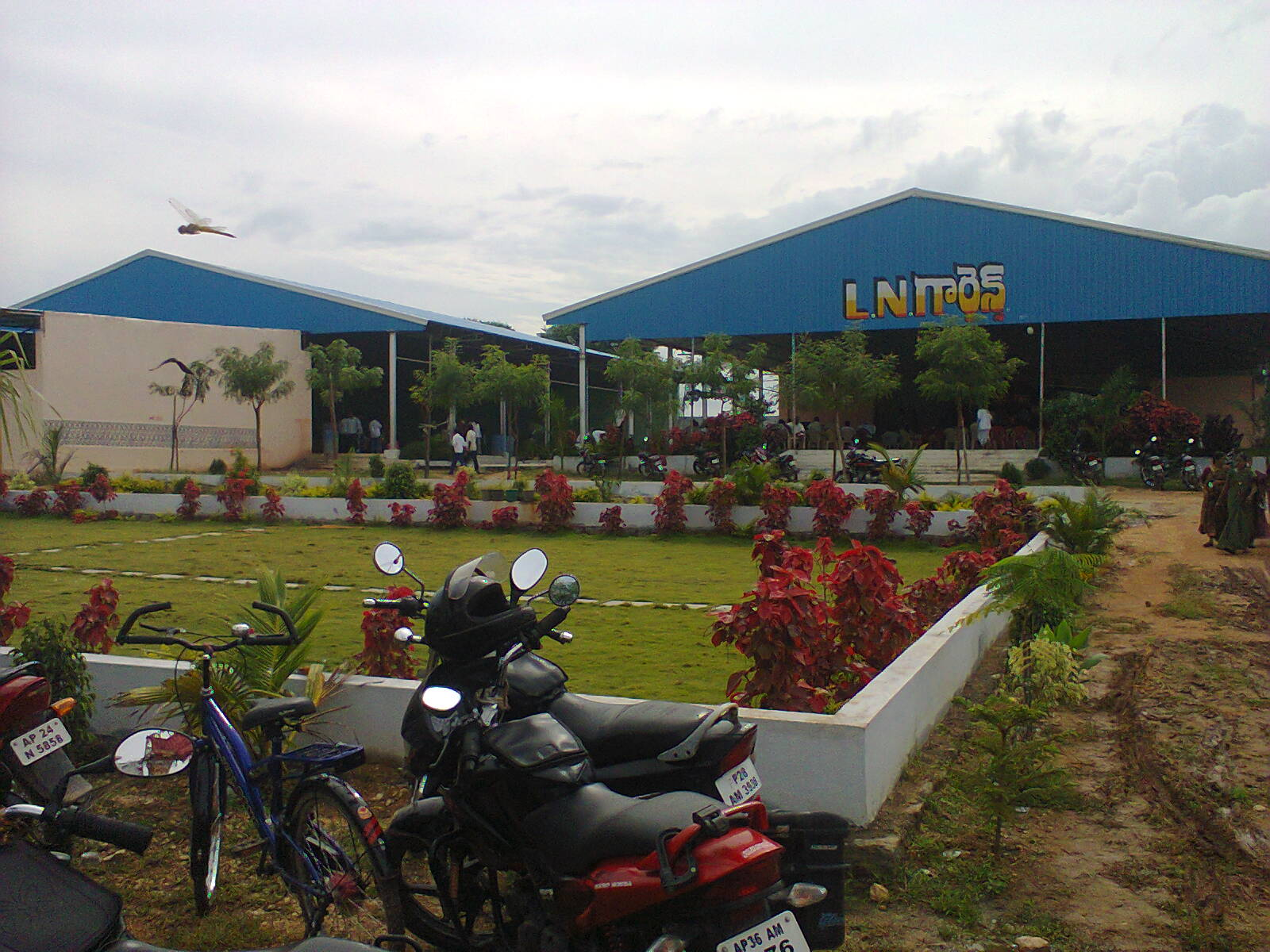 ఎల్.ఎన్. గార్డెన్స్, మోత్కూర్